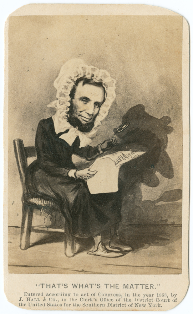 Title: That's what's the matter Creator: J. Hall & Co. (publisher) Date: 1863 Part of: Physical Description: 1 photographic print on carte de visite mount; 10 x 6 cm. File: ag2007_0007_075c_lincoln.jpg Rights: Please cite DeGolyer Library, Southern Methodist University when using this file. A high-resolution version of this file may be obtained for a fee. For details see the web page. For other information, . For more information and to view the image in high resolution, View the